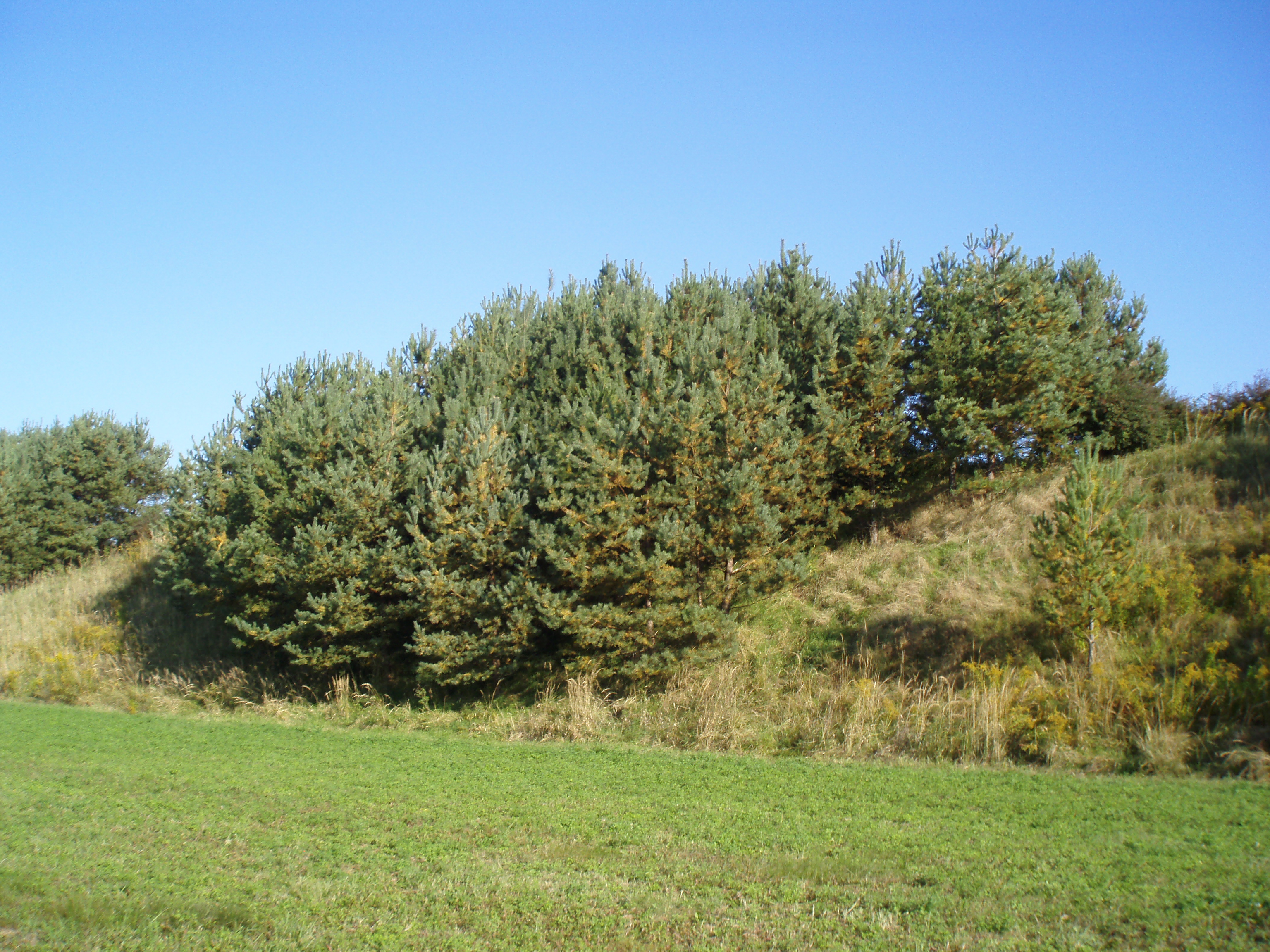 Forest at the former brickworks in Plotiště nad Labem (Hradec Králové, Czechia)